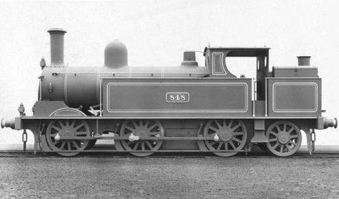 Photograph of LNWR engine No. 848 Coal Tank